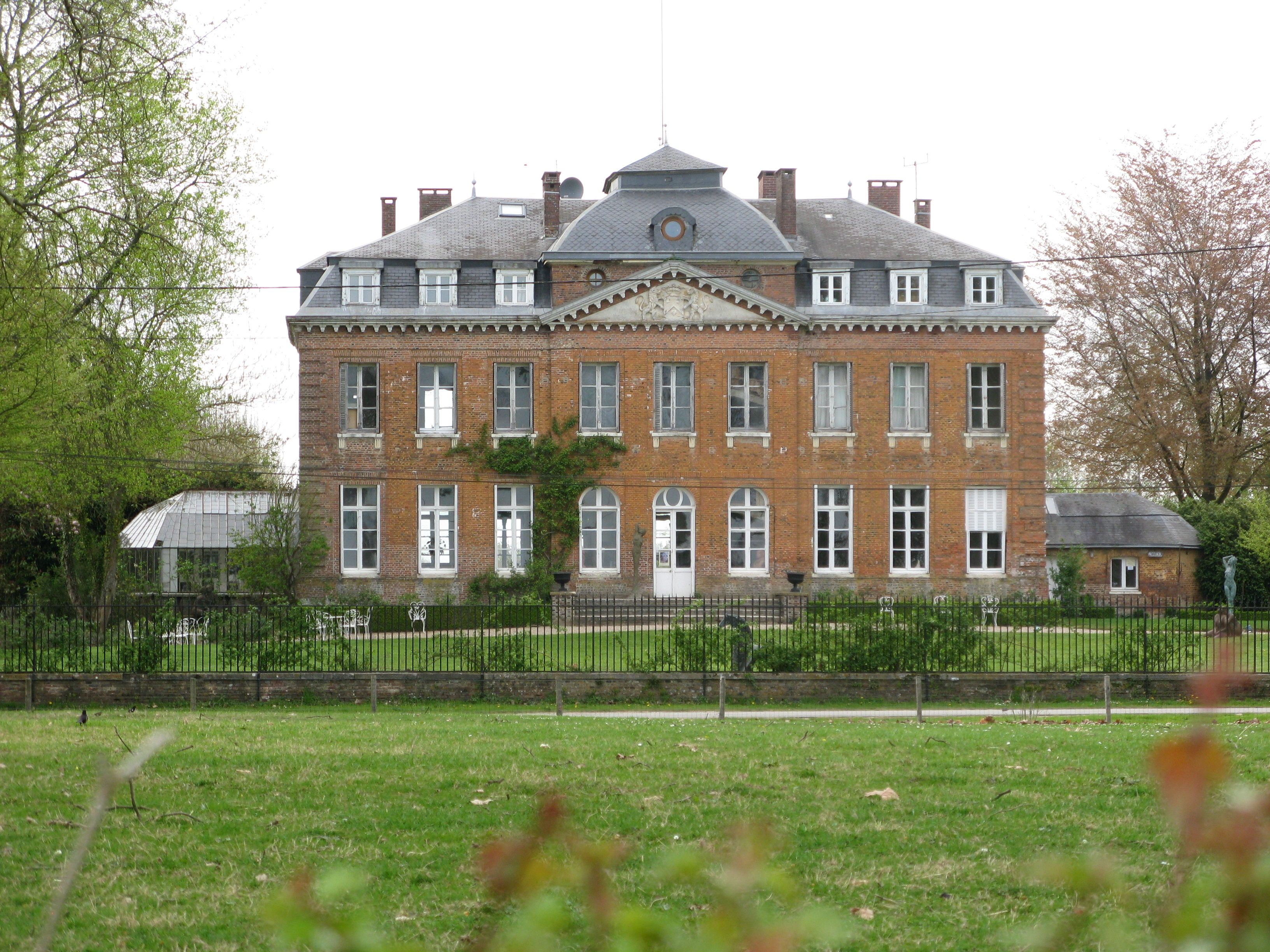 Bois-Guilbert Castle (France, 76750)